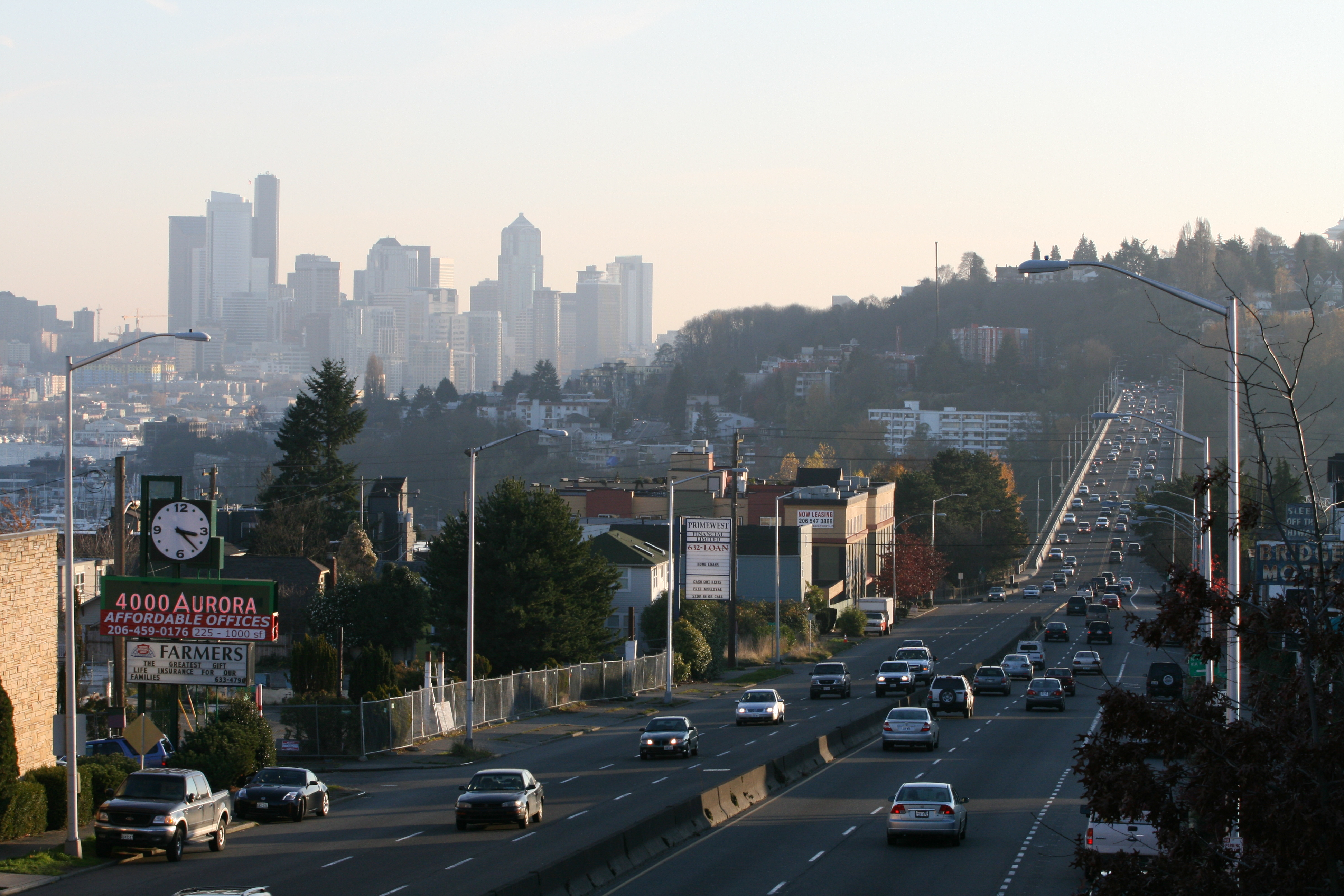 Aurora Avenue and George Washington Memorial Bridge, looking southbound from 41st street bridge, Fremont, Washington